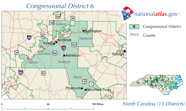 North Carolina's 6th congressional district prior to 2012 redistricting